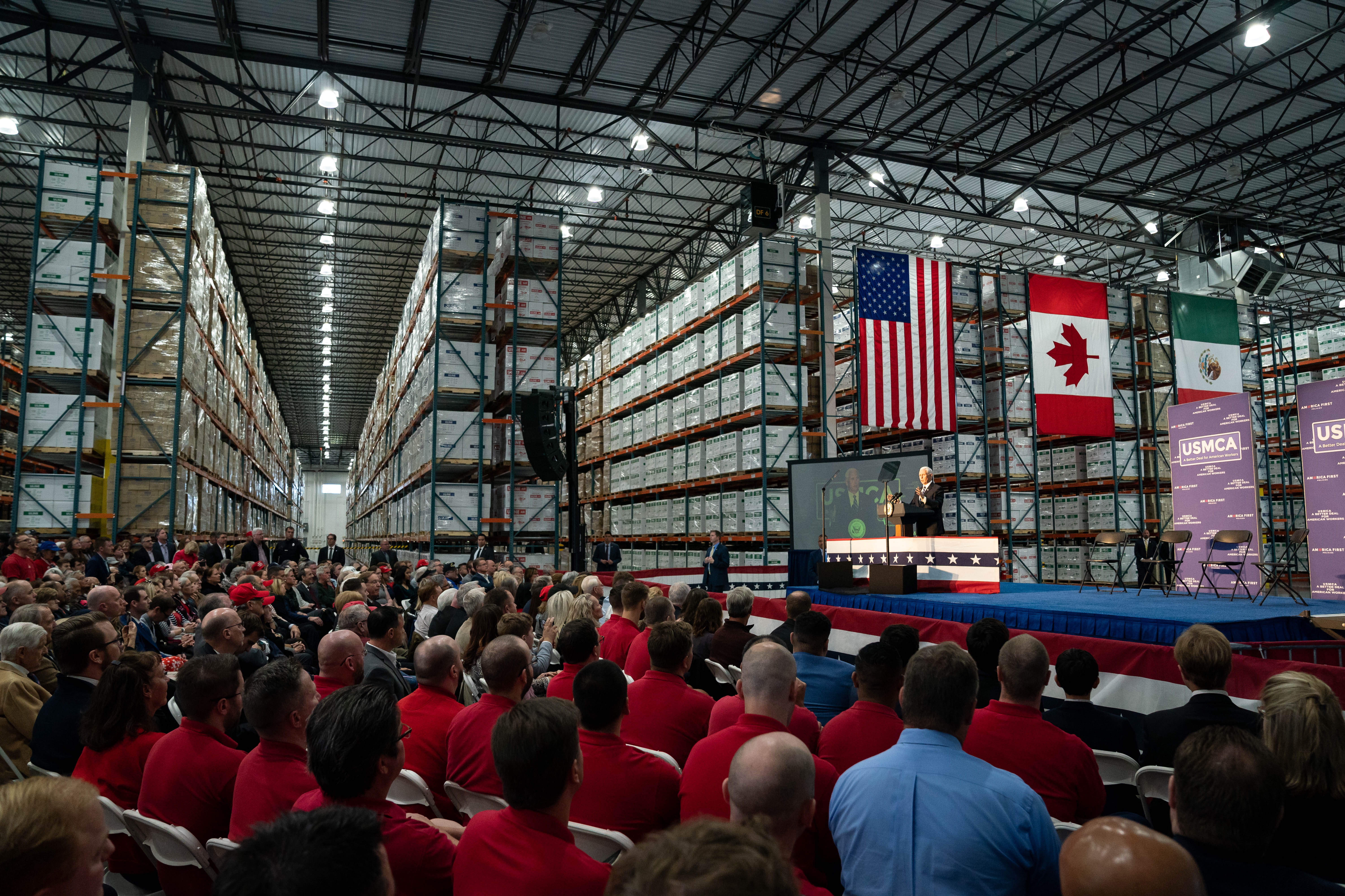 Vice President Mike Pence delivers remark at a U.S., Mexico, and Canada Agreement Wednesday, Oct. 23, 2019, at the Uline Distribution Warehouse in Pleasant Prairie, Wisconsin. (Official White House Photo by Myles Cullen)